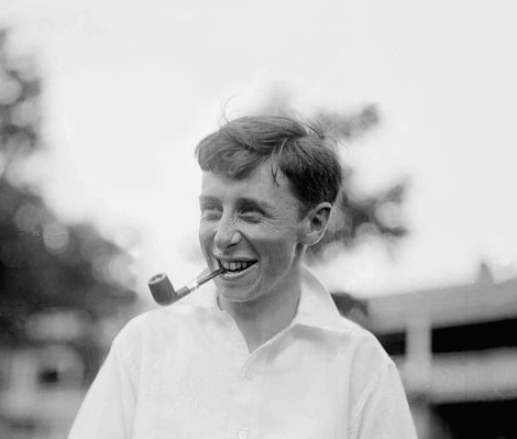 Golfer Kenneth Edwards, smoking a pipe.